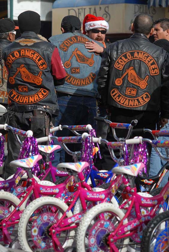 tijuana toy run